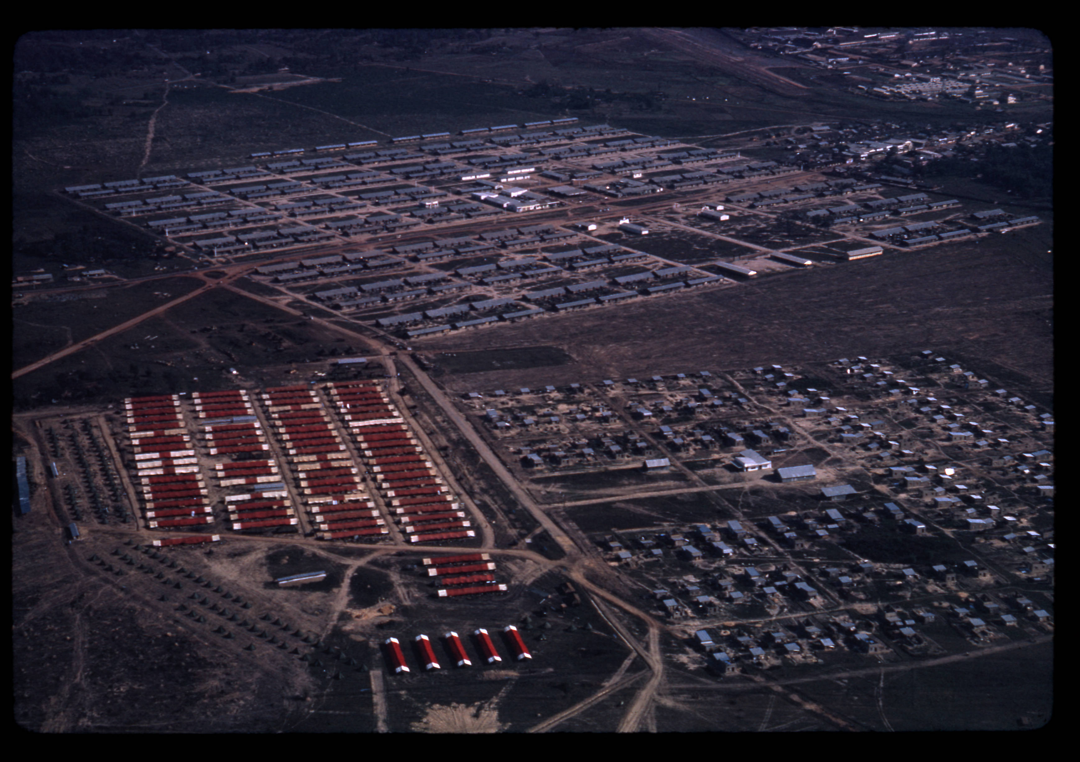 The red tents in the lower left hand corner of the photograph make up the refugee camp constructed near Phu Loi during Operation Cedar Falls. Engineers of the 86th Engineer Battalion and the 1st Engineer Battalion assisted in clearing the area and providing water supply. An ARVN cantonment can be seen in the top portion of the photograph.